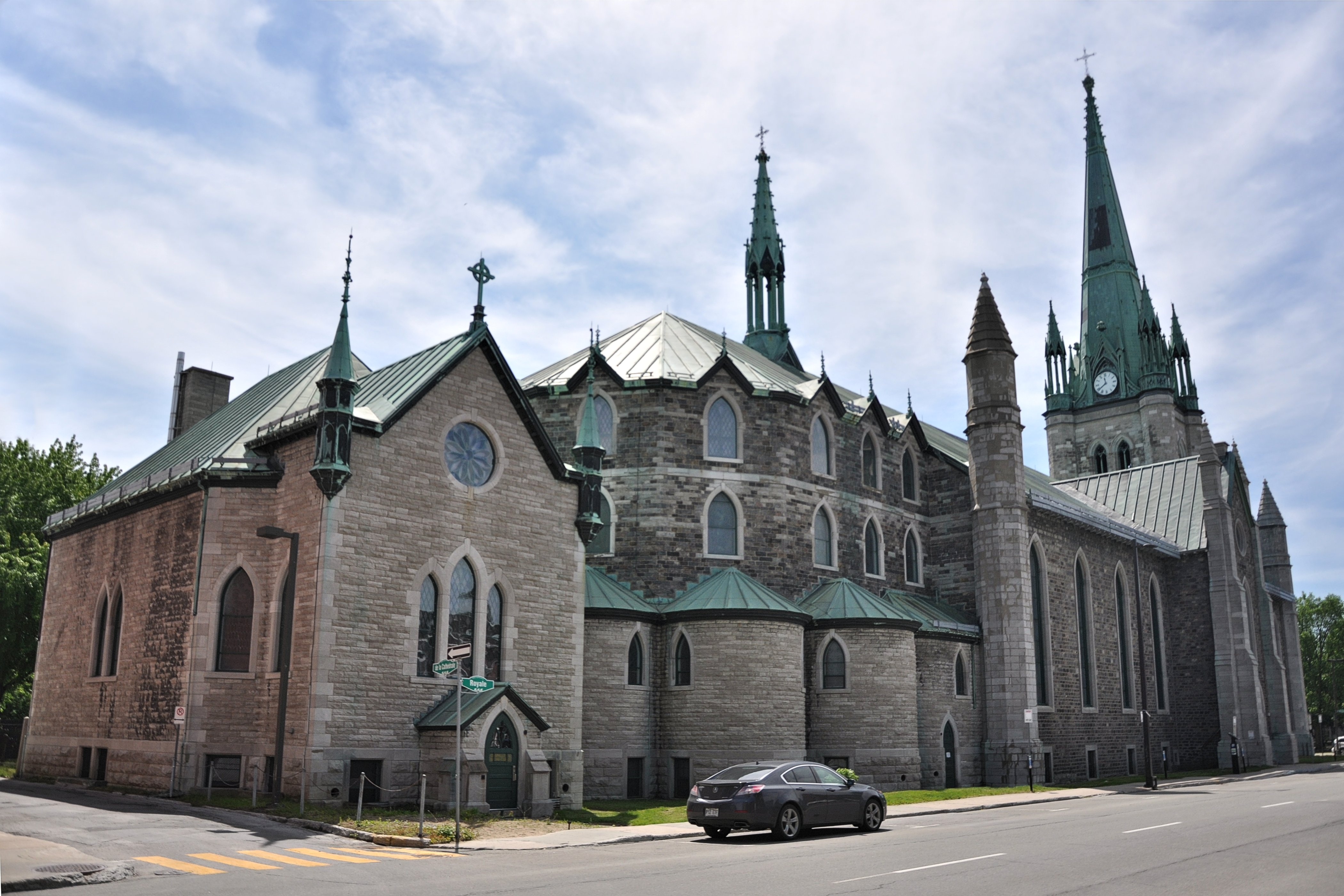 The first mass was celebrated in Trois-Rivières on 26 July 1615 by a priest of the Récollet order but it wasn’t until 1678 that the first wooden church was built. It was replaced in 1692 and again in 1709, this time by stone structure. Unfortunately that building was a victim of the 1908 fire. On June 8, 1852, Trois-Rivières was created a bishopric by Pope Pius IX. Bishop Thomas Cooke became the first bishop and on March 16, 1854 that he instigated a project to construction a cathedral. The resulting neo-Gothic building was inaugurated on 29 September 1858 complete with a superb organ. The architect was Victor Bourgeau and his design – both the exterior and the interior – was heavily influenced by Trinity Church Manhattan.